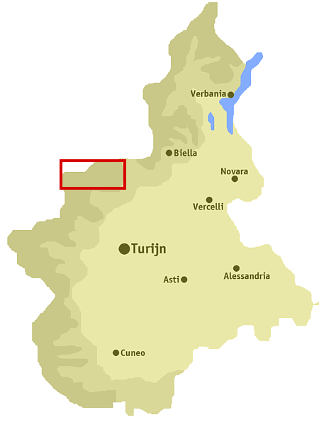 Position of the valley Valle di Locana